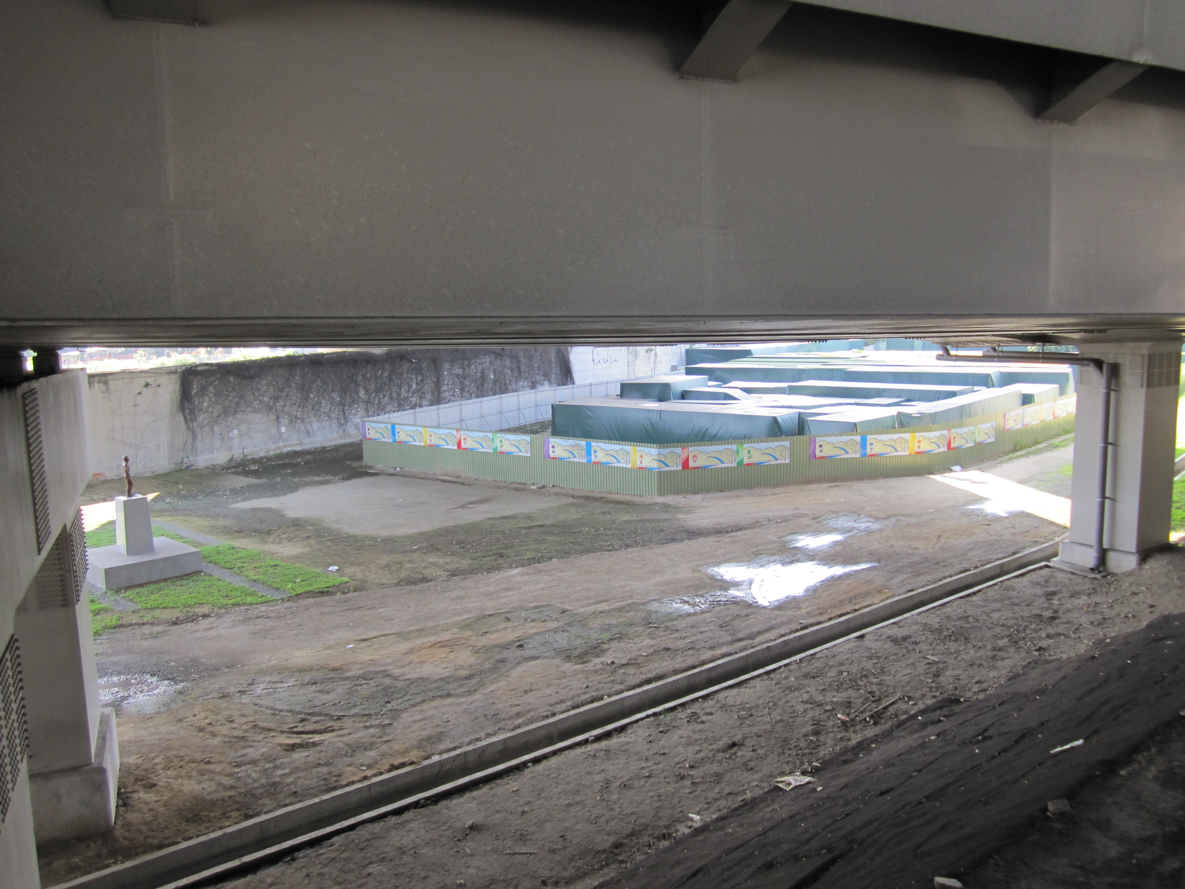 Taipei Then spring swimming pool Ruins中文（台灣）: 臺北市立再春遊泳池遺址，左手邊為李再春立像，右手邊為中山橋435塊石塊臨時堆放處。